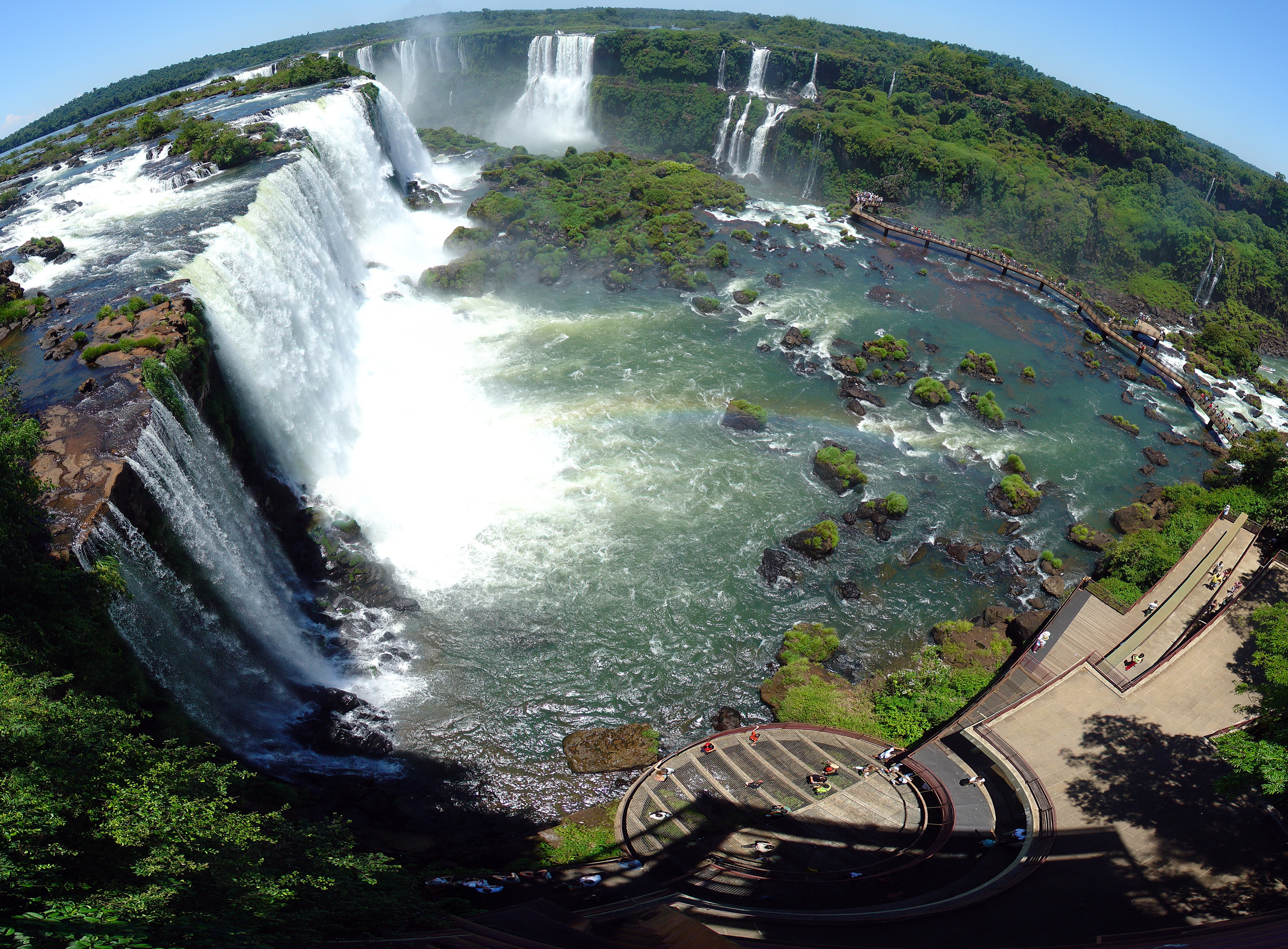 Iguazu Falls, in Misiones (Argentina).